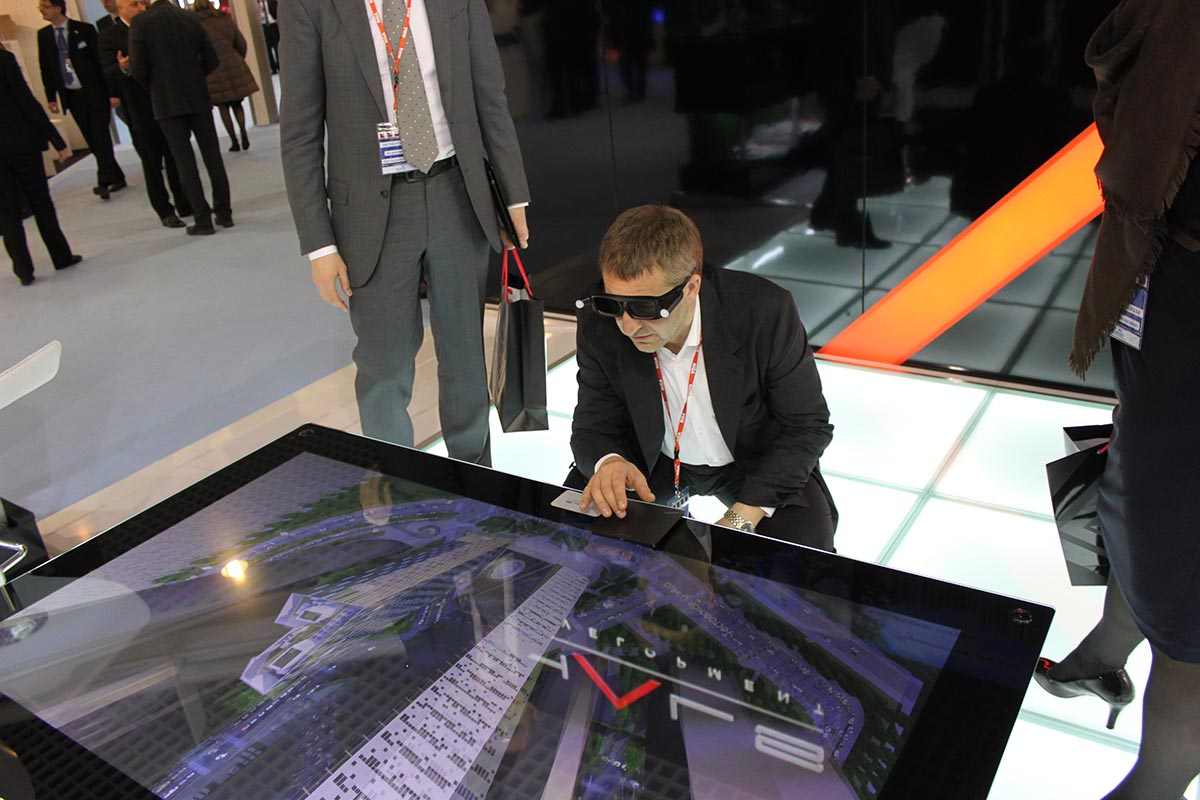 NettleBox virtual reality display